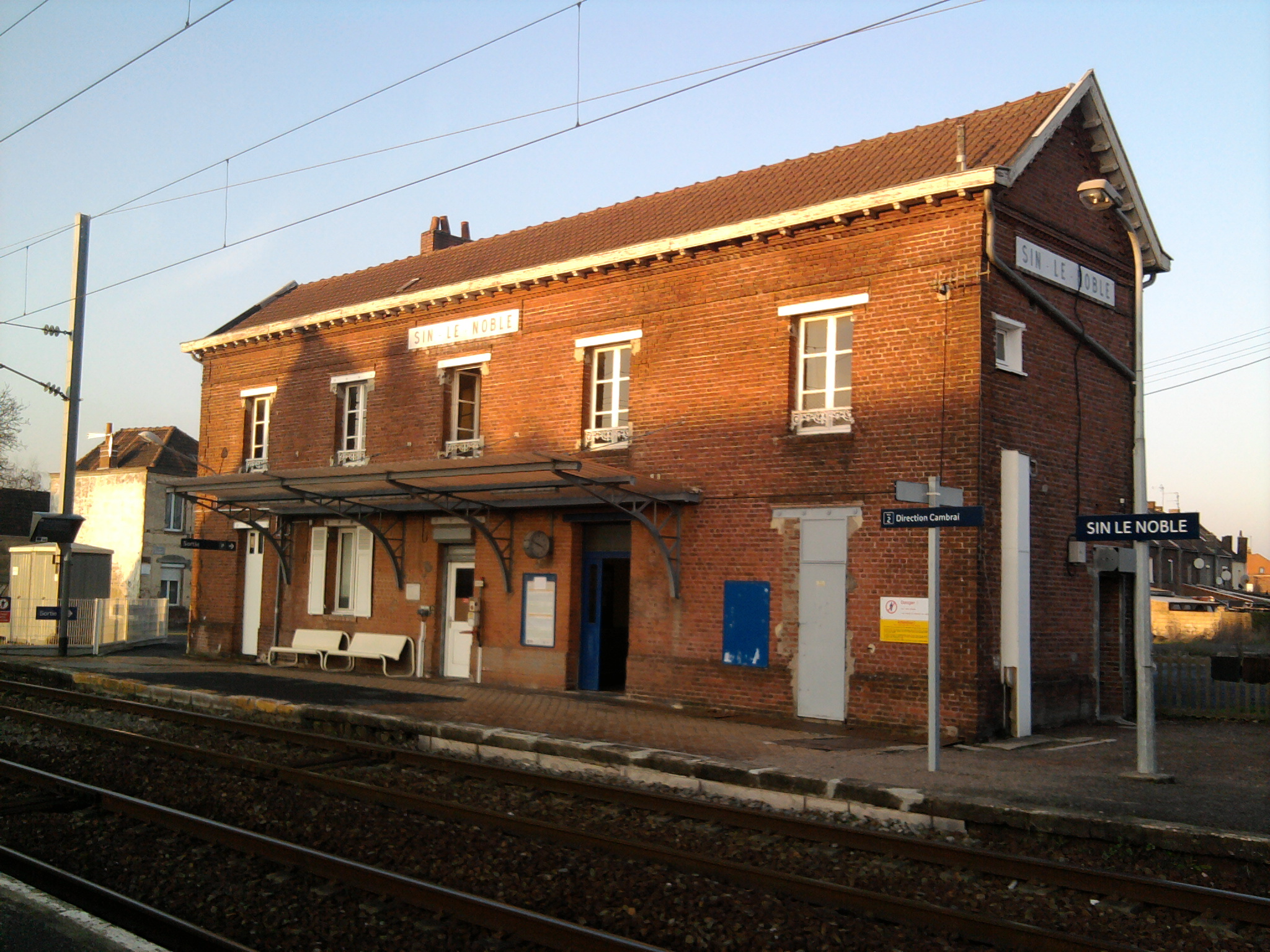 Sin le Noble (North) station